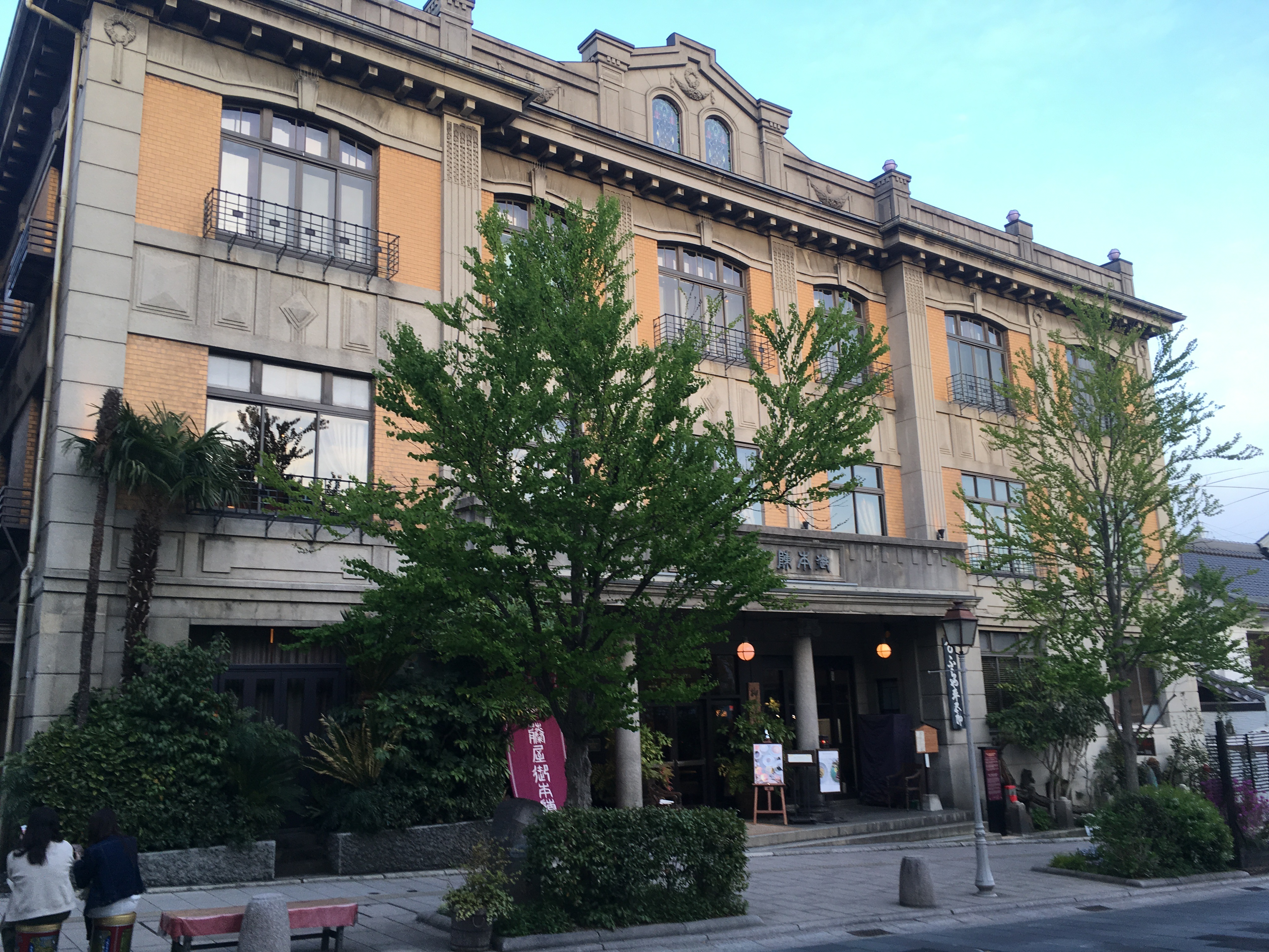 This is a photo of the Taishō era Fujiya Gohonjin Building in Daimon Cho of Nagano City.